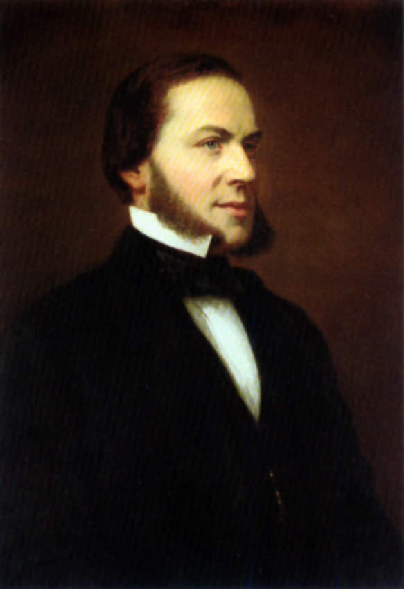 Portrait of the merchant and entrepeneur Eduard Crüsemann (1826–1869), founder of the shipping company Norddeutscher Lloyd (“North German Lloyd”) in Bremen.